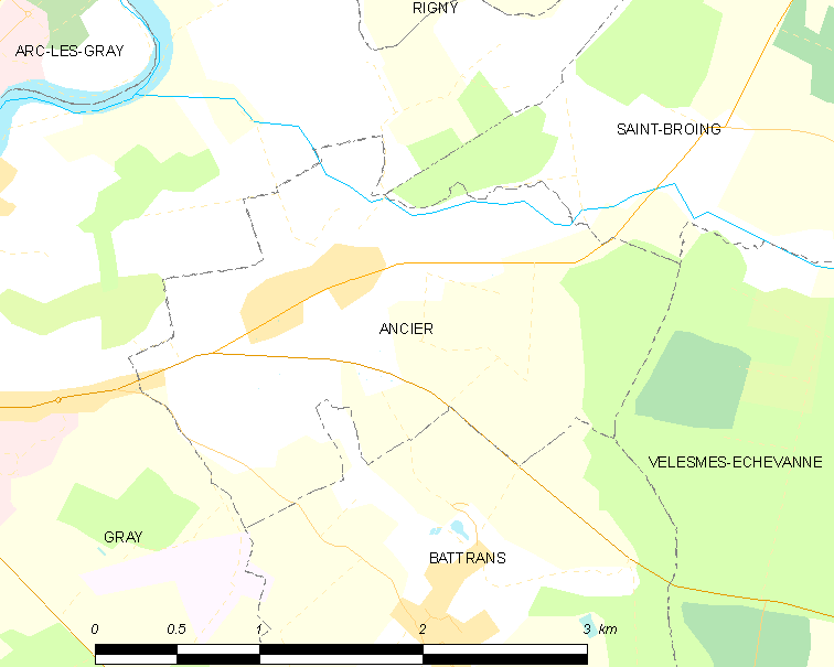 Map of French municipality